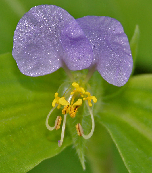 Commelina kurzii C.B. Clarke in Hyderabad , India.